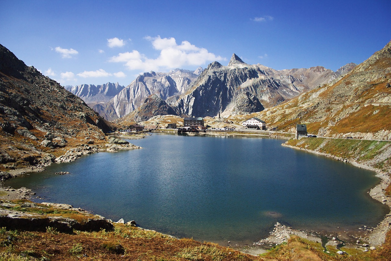 Great St Bernard Pass (Fr. Col du Grand-Saint-Bernard, It. Colle del Gran San Bernardo) is the most ancient pass through the Western Alps, with evidence of use as far back as the Bronze Age and surviving traces of a Roman road. In 1800 Napoleon's army used the path to enter Italy